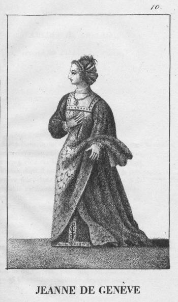 Joanna of Geneve